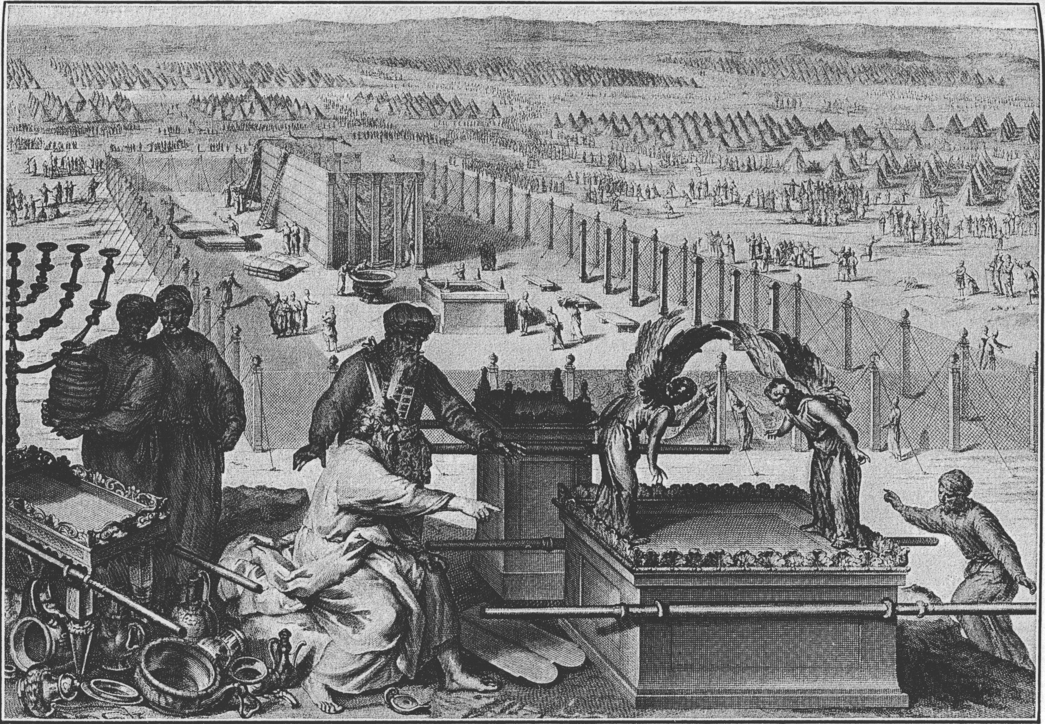 The erection of the Tabernacle and the Sacred vessels, as in Exodus 40:17-19, "And it came to pass in the first month in the second year, on the first day of the month, that the tabernacle was reared up. And Moses reared up the tabernacle, and fastened his sockets, and set up the boards thereof, and put in the bars thereof, and reared up his pillars. And he spread abroad the tent over the tabernacle, and put the covering of the tent above upon it; as the Lord commanded Moses."; illustration from the 1728 Figures de la Bible; illustrated by Gerard Hoet (1648–1733) and others, and published by P. de Hondt in The Hague; image courtesy Bizzell Bible Collection, University of Oklahoma Libraries